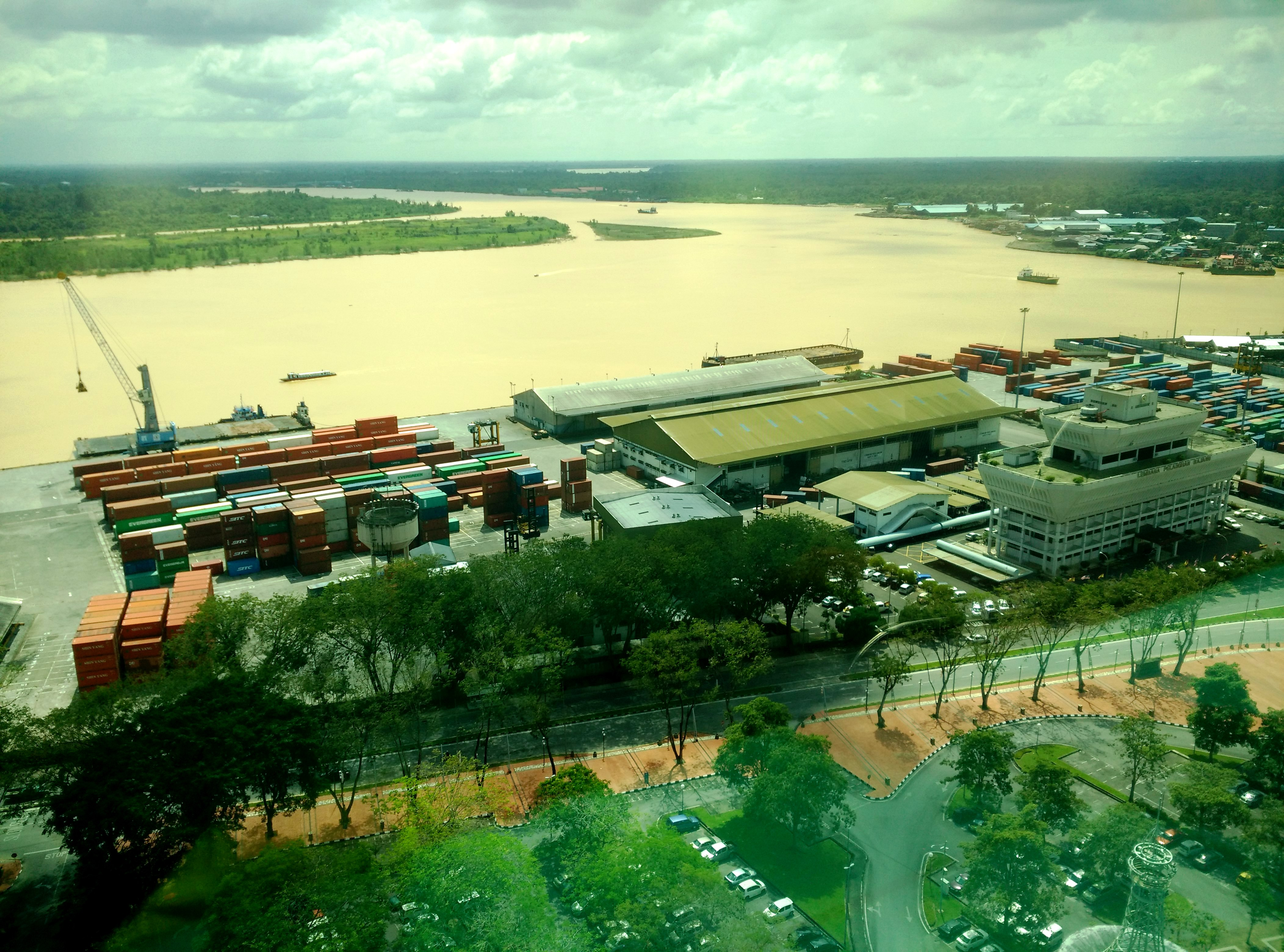 Aerial view of Sibu port operation centre. Building on the far right is the Rajang Port Authority.